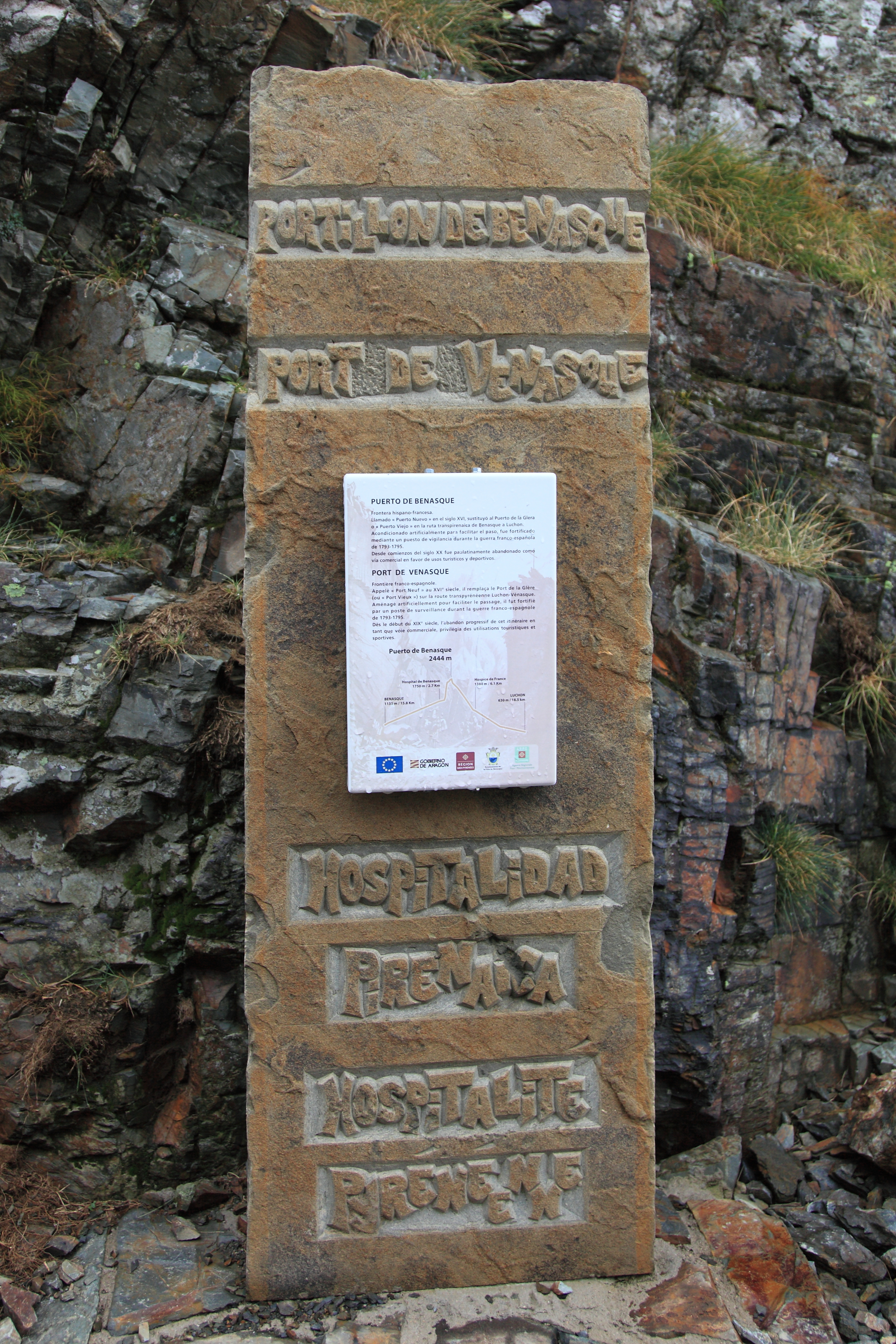 Marker on the French-Spanish border at Port de Benasque with a history of the port. Portillon de Benasque Port de Venasque PUERTO DE BENASQUE Frontera hispano-francesa Llanado en el siglo XVI, sustituyó al Puerto de la Glera o en la ruta transpirenaica de Benasque a Luchon. Acondicionado artificialmente para facilitar el paso, fue fortificado mediante un puesto de vigilancia durante la guerra franco-española de 1793-1795. Desde comienzos del siglo XX fue paulatinamente abandonado como vía comercial en favor de usos turistico y deportivos. PORT DE VENASQUE Frontière franco-espagnole. Appelé au XVIe siècle, il remplaça le Port de la Glère (ou ) sur la route transpyrénéenne Luchon-Vénasque. Aménagé artificiellement pour faciliter le passage, il fut fortifié par un poste de surveillance durant la guerre franco-espagnole de 1793-1795. Dés le début du XIXe siècle, l'abandon progressif de cet itinéraire en tant que voie commerciale, privilégia des utilisations touristiques et sportives. Hospitalidad Pirenaica Hospitalité Pyrénéenne